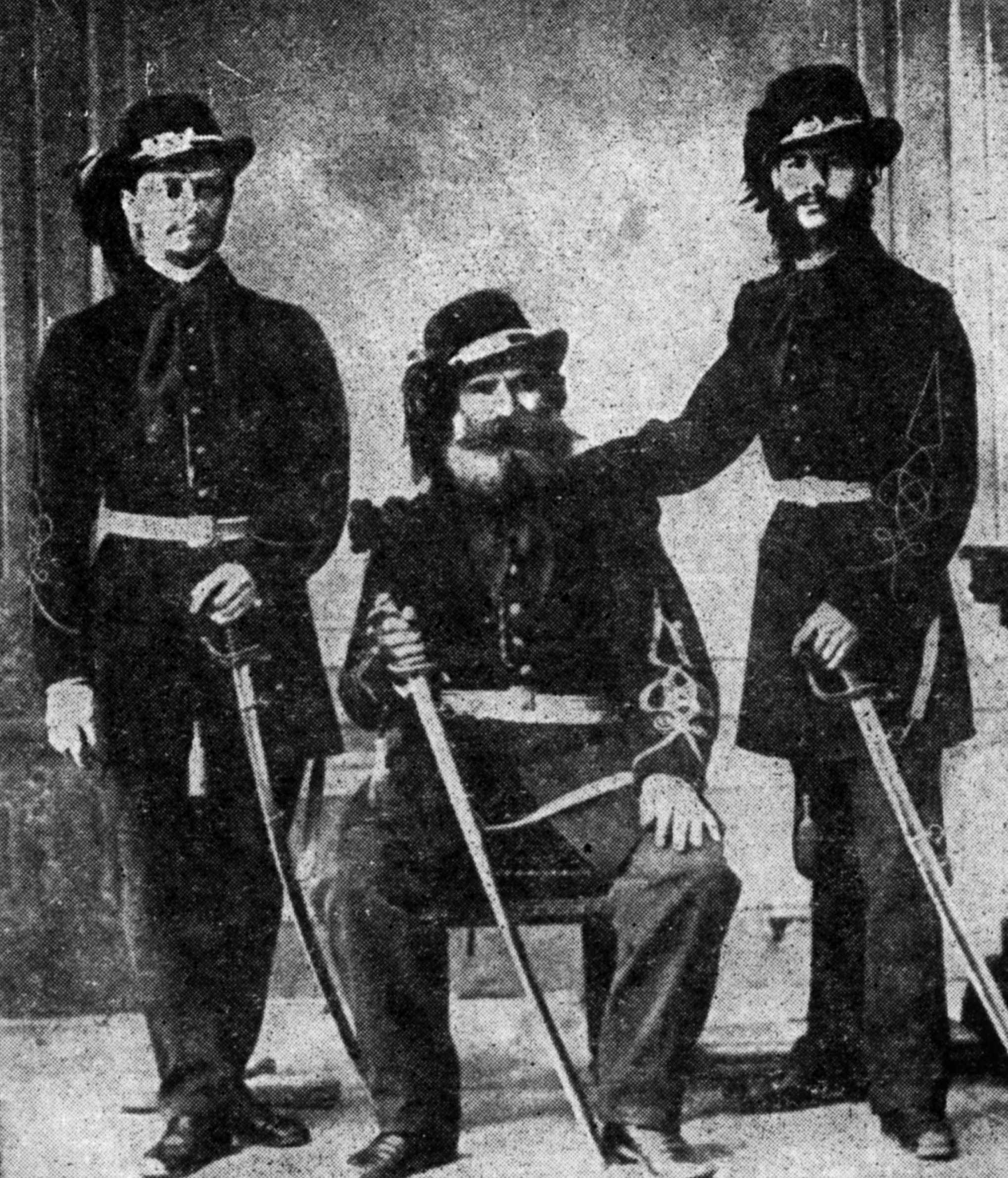 Three members of the Citizens' Guard in Bucharest, Romania